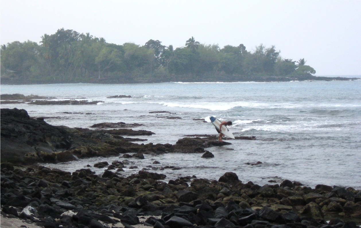 A surfer at the area called "Banyans", the North side of Holualoa Bay in Kona, Big island of Hawaiʻi. In the background is Kamoa Point Historic site.